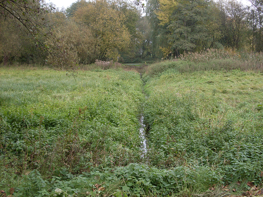 The Wehrbach below the origin